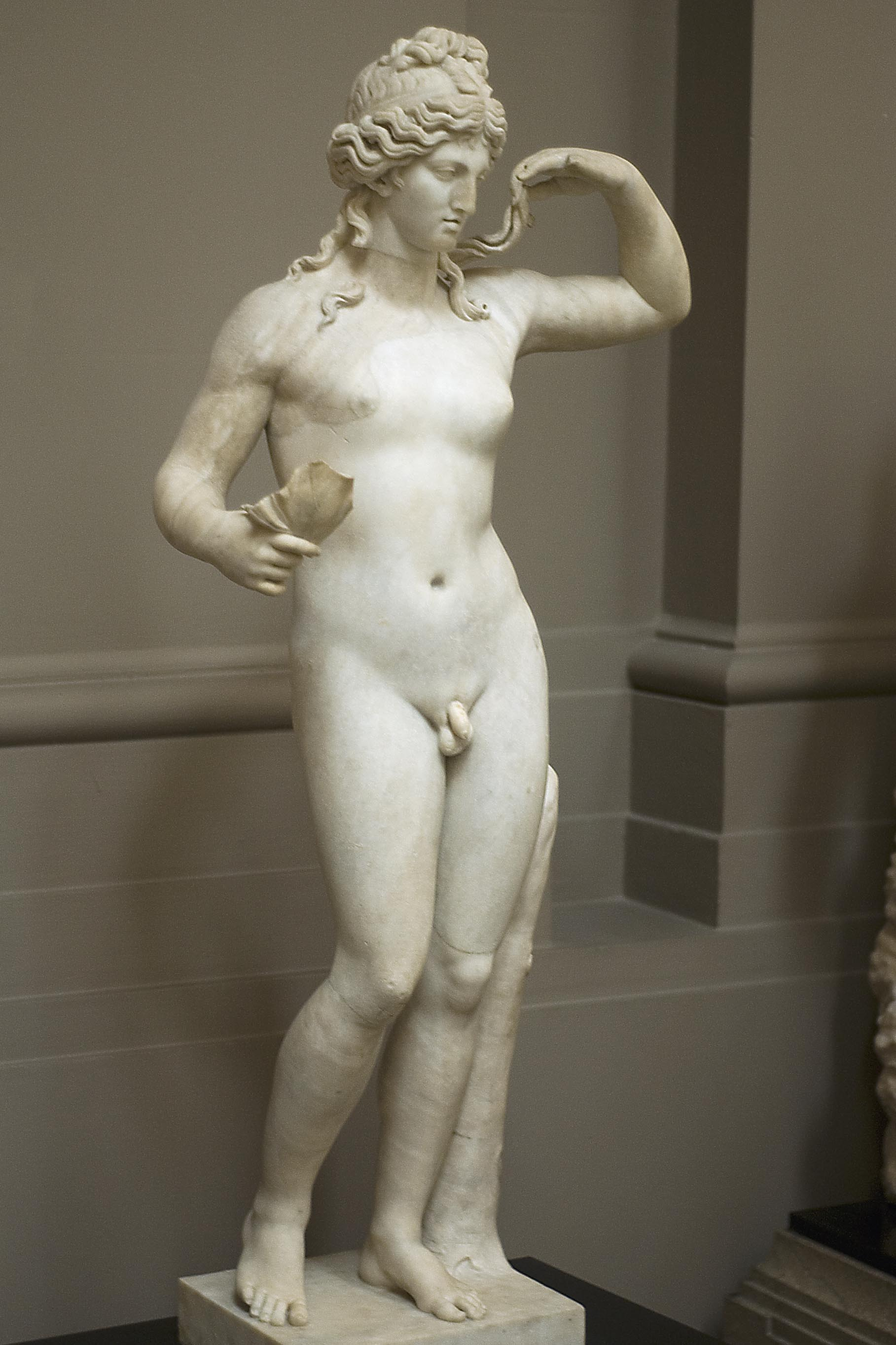 Hellenistic statue of Hermaphroditus (marble copy of a fresco from Herculaneum).